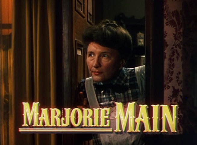 Cropped screenshot of Marjorie Main from the trailer for the film Meet Me in St. Louis.